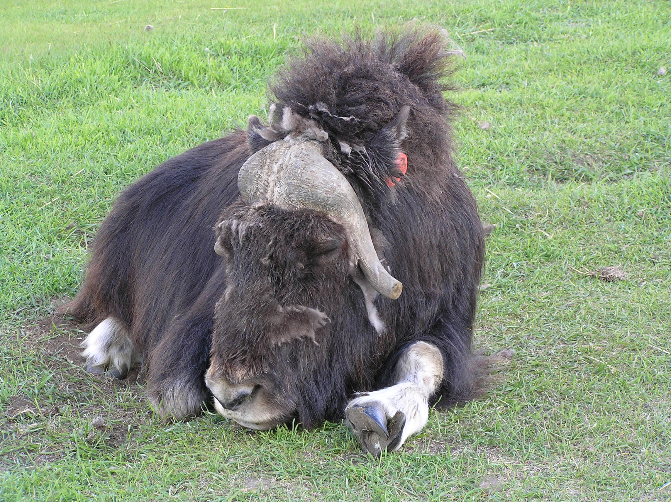 Musk-ox resting on grass at a farm near Glenn Highway, Alaska, USA